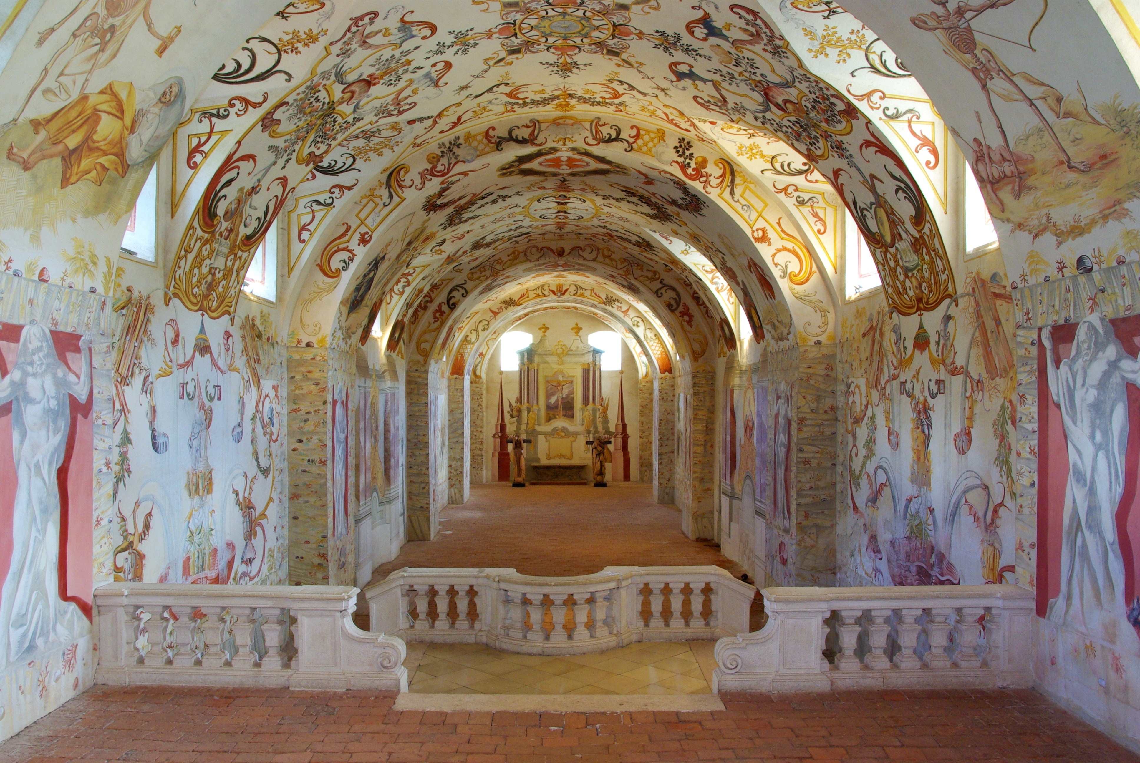 Altenburg Abbey, a Benedictine monastery in Lower Austria.